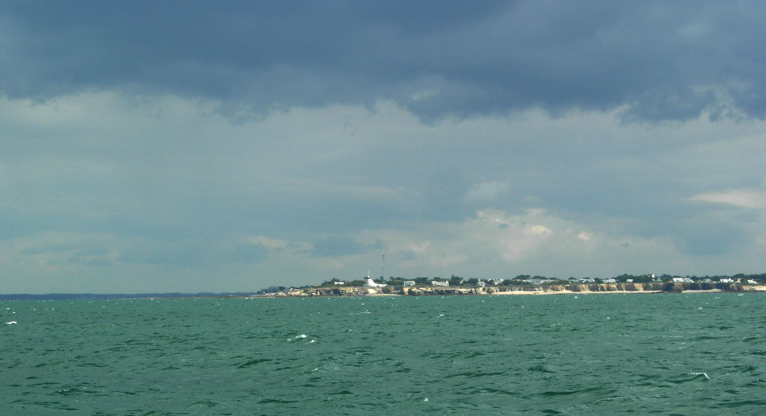 Description =Sémaphore de Piriac Source =Photo taken by Remi Jouan Date =Aout 2006 Author =Remi Jouan